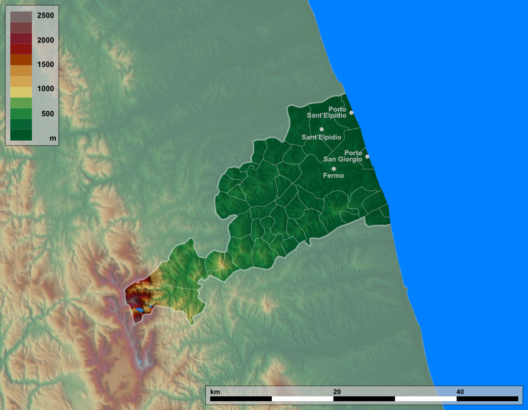 Map created with 3DEM from SRTM ( Administrative boundaries from OpenStreetMap.